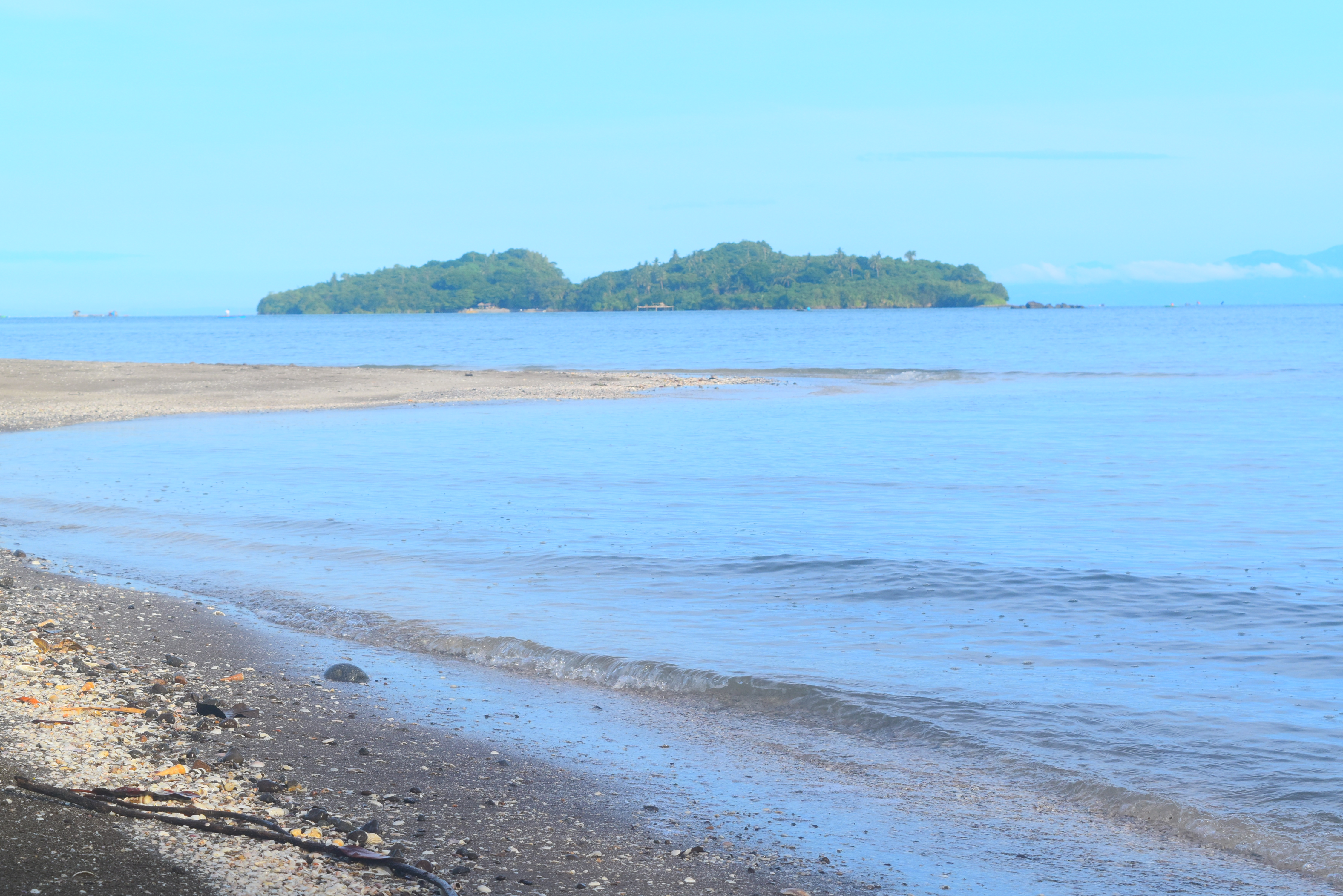 Cauit Island, Calabanga, Camarines Sur view from Brgy. Cagsao sea shore